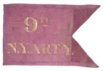 9th New York Heavy Artillery Battle Flag